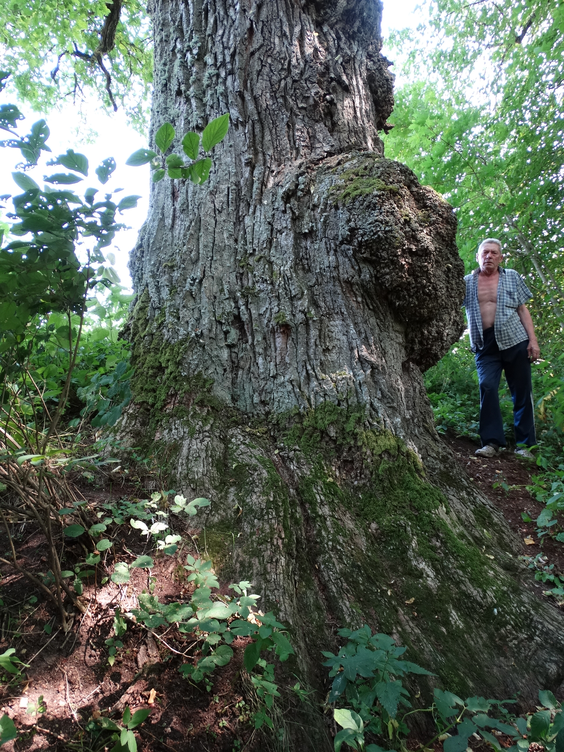 Virinta Oak, Molėtai district, Lithuania